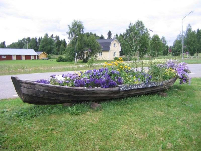 Decoration in Juoksengi village, Övertorneå, Sweden.